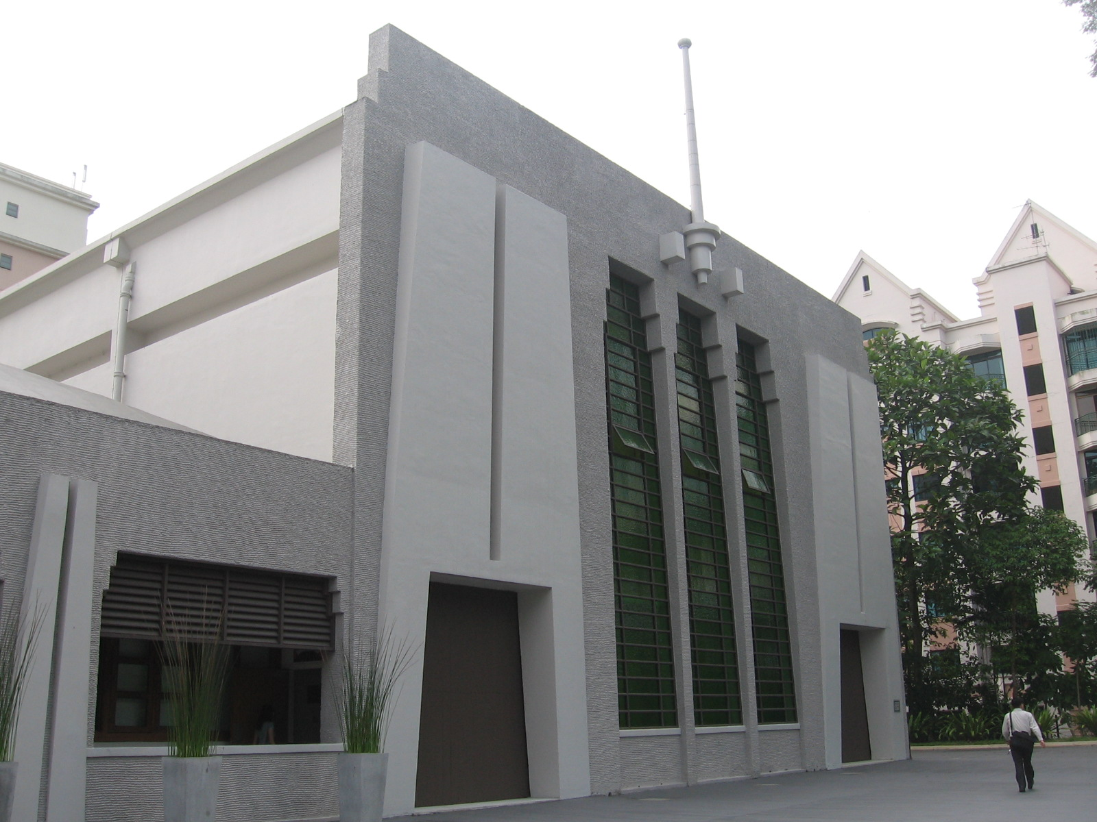 Old Ford Motor Factory. Taken by User:Sengkang of ENglish.Wikipedia in Mar 2007.